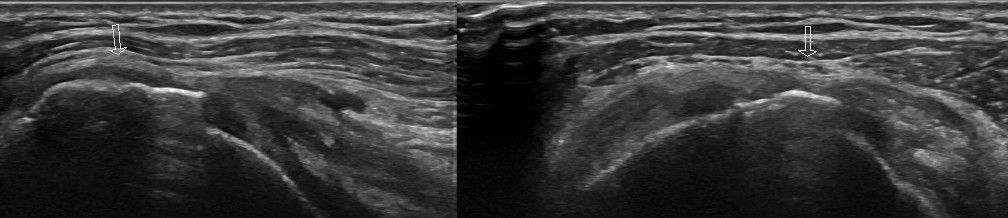 Full thickness rotator cuff tear ultrasound